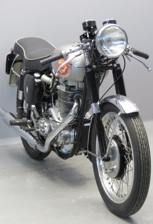 1956 BSA B32 (DB34GS) Gold Star 350 cc